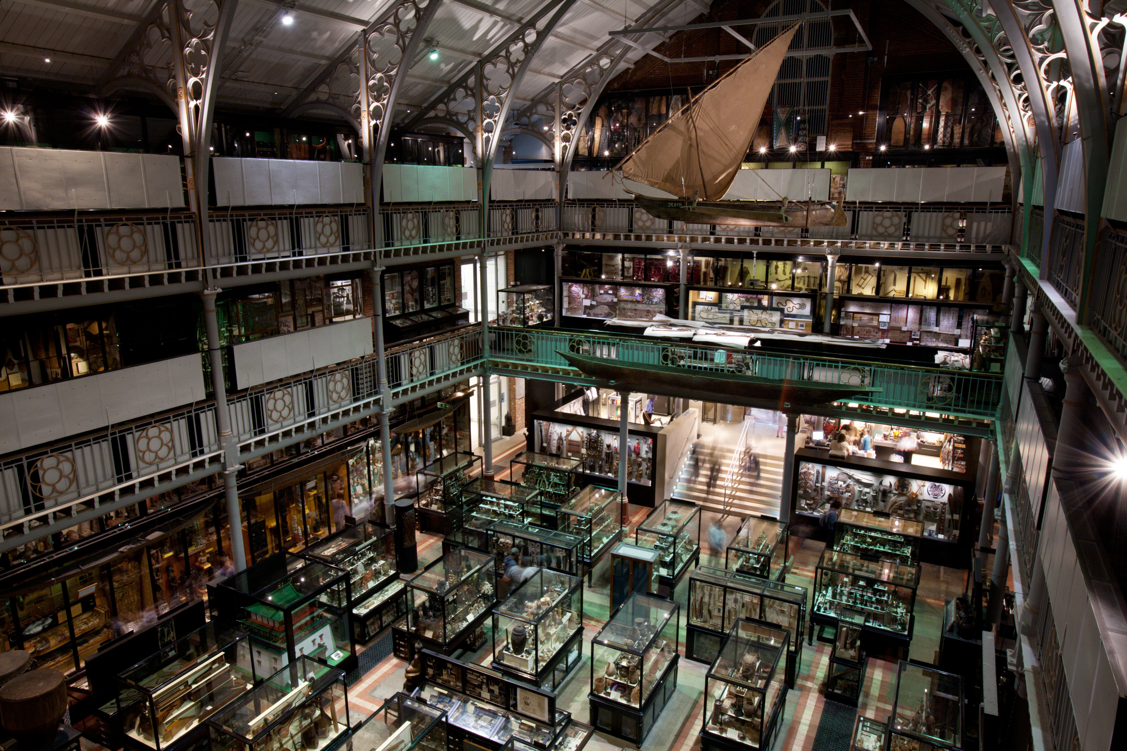 Pitt Rivers Museum, Oxford, UK